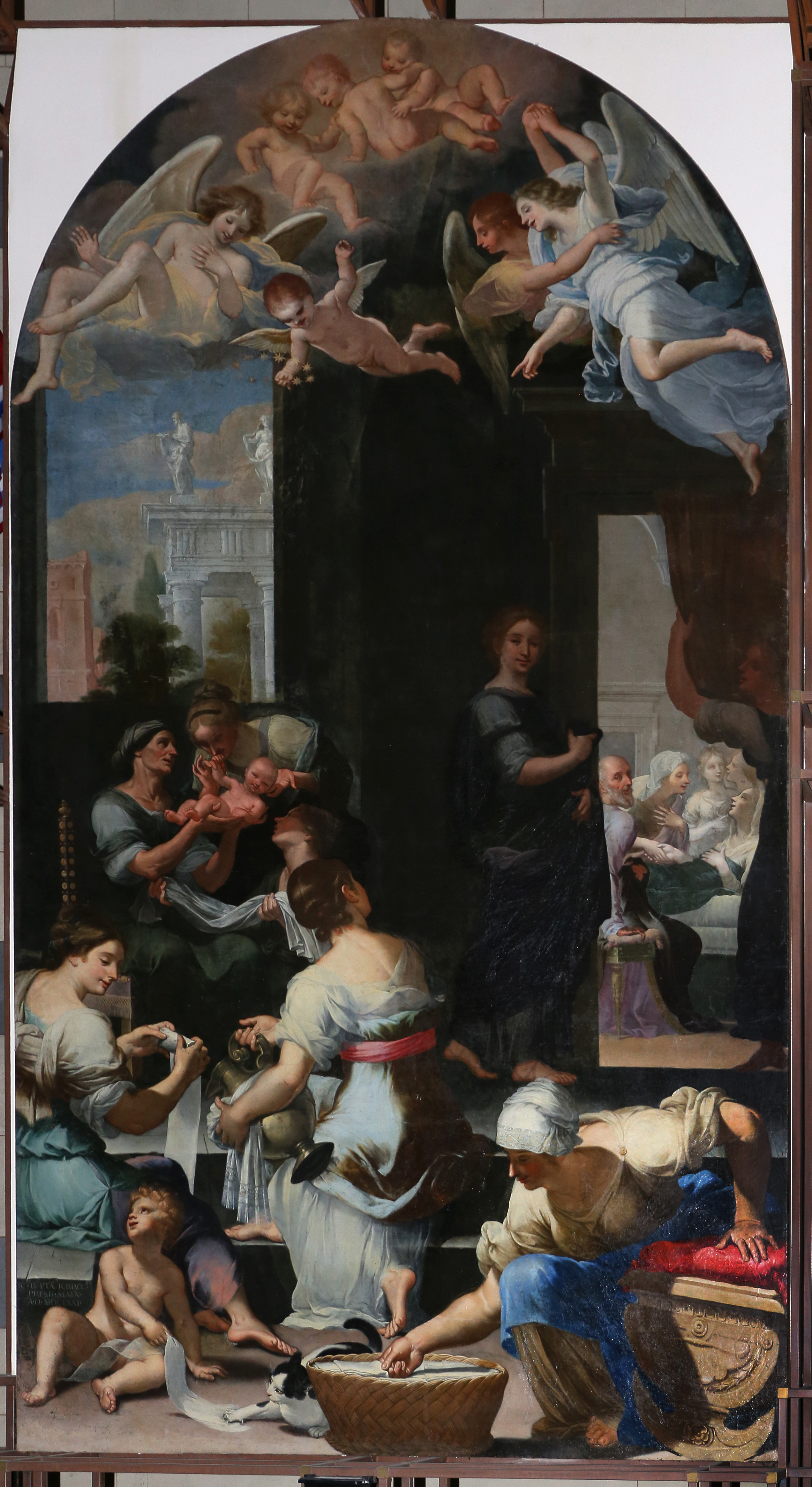 Basilica of San Francesco (Siena)